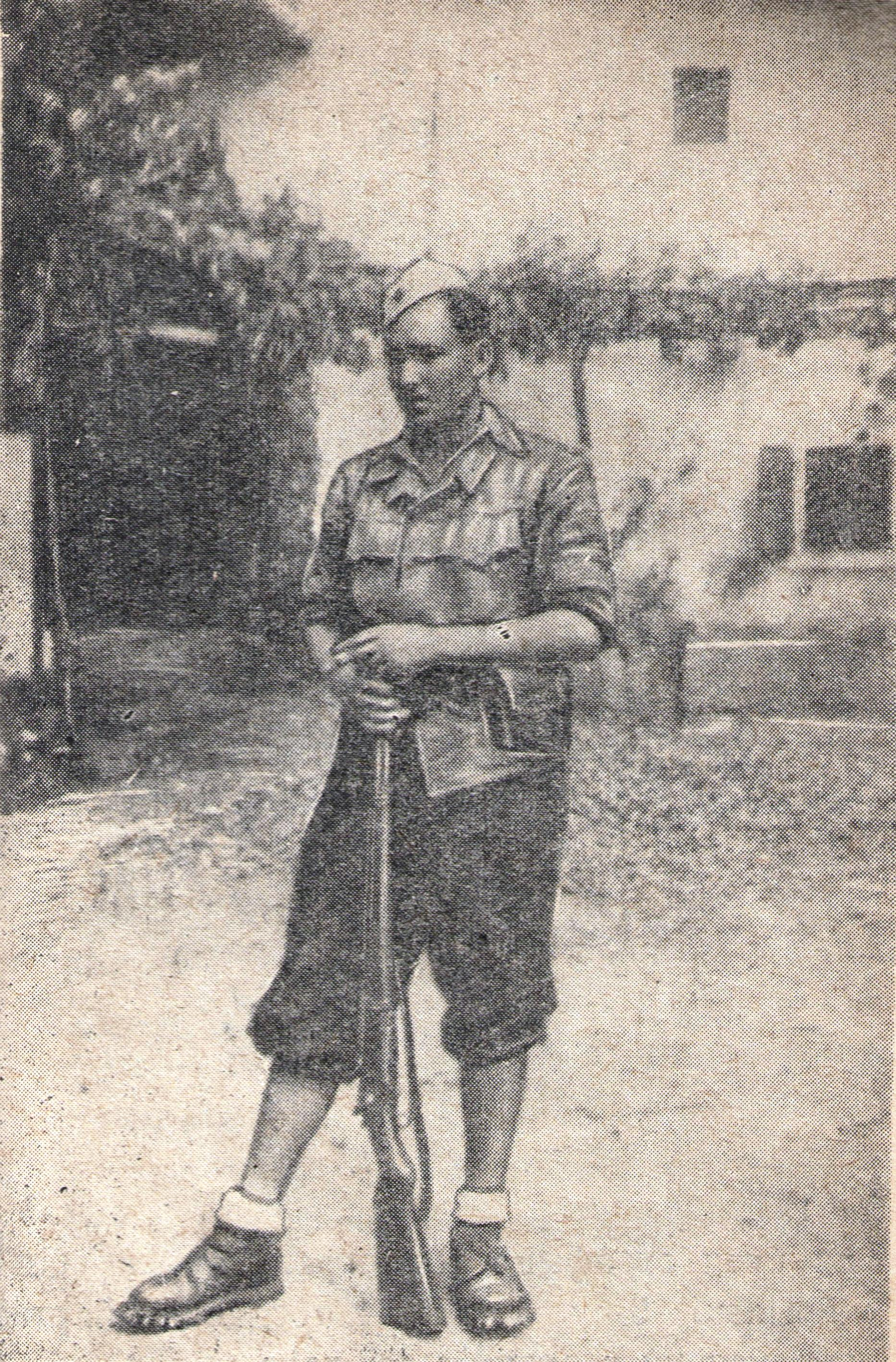 Partizan Mikhailo in 1944